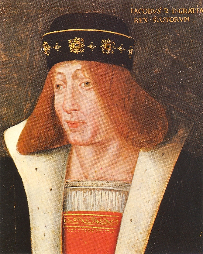 Posthumous portrait of James II of Scotland; oil on panel